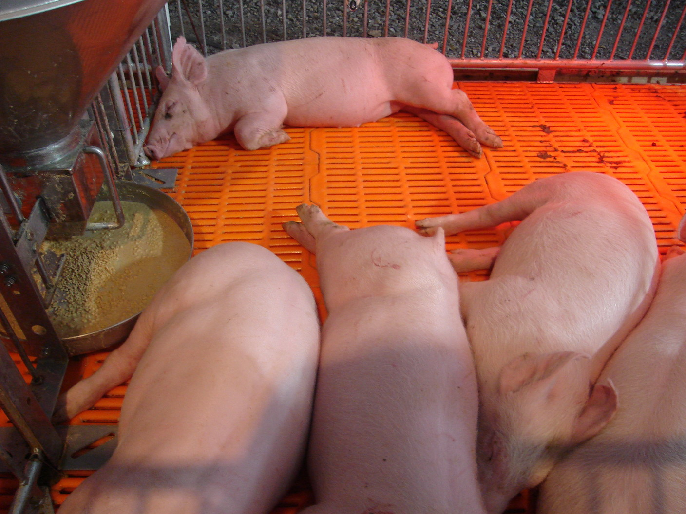 Pigs (Charoen Pokphand Group (CP)) -- Chiangmai, Thailand